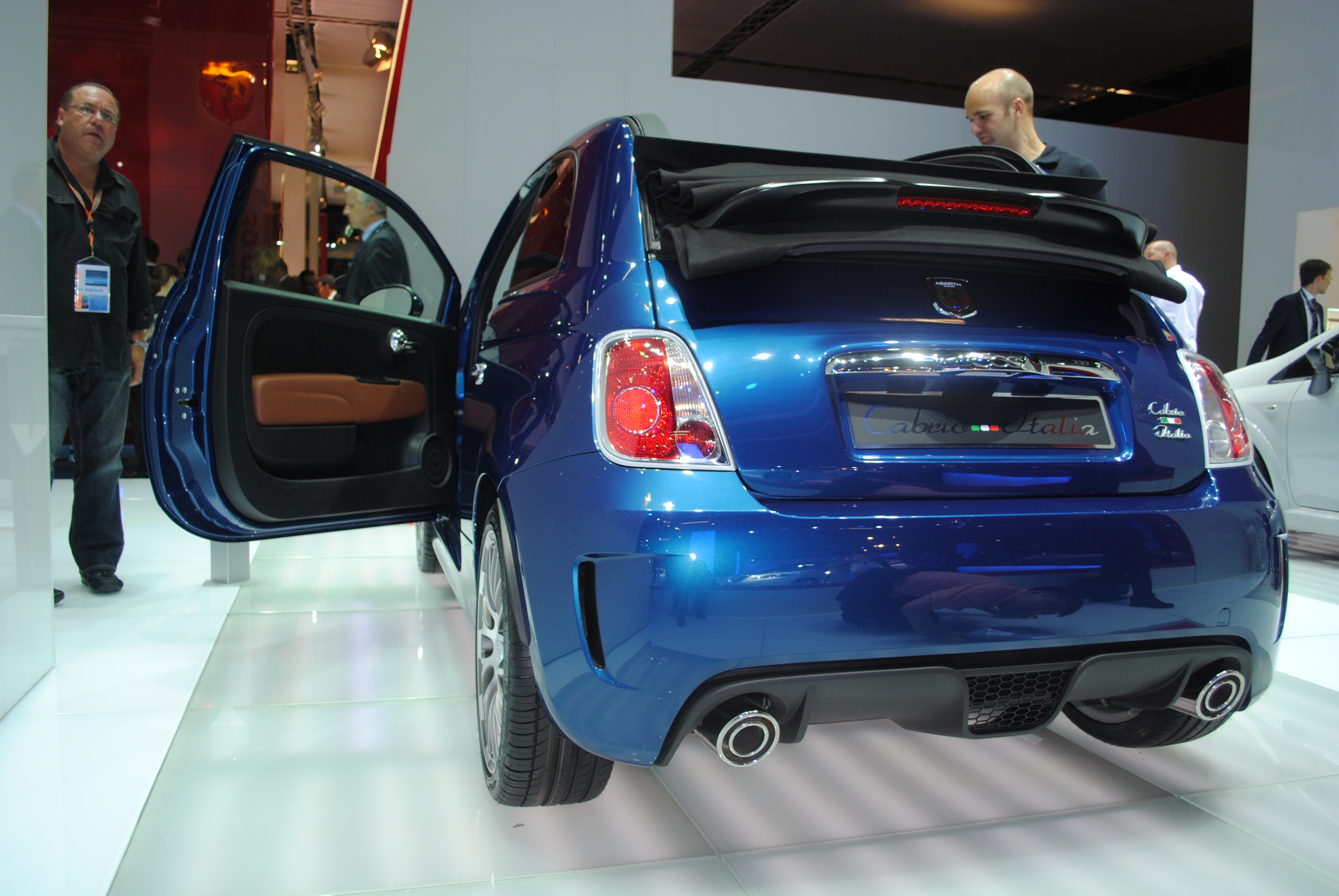 More photos and info